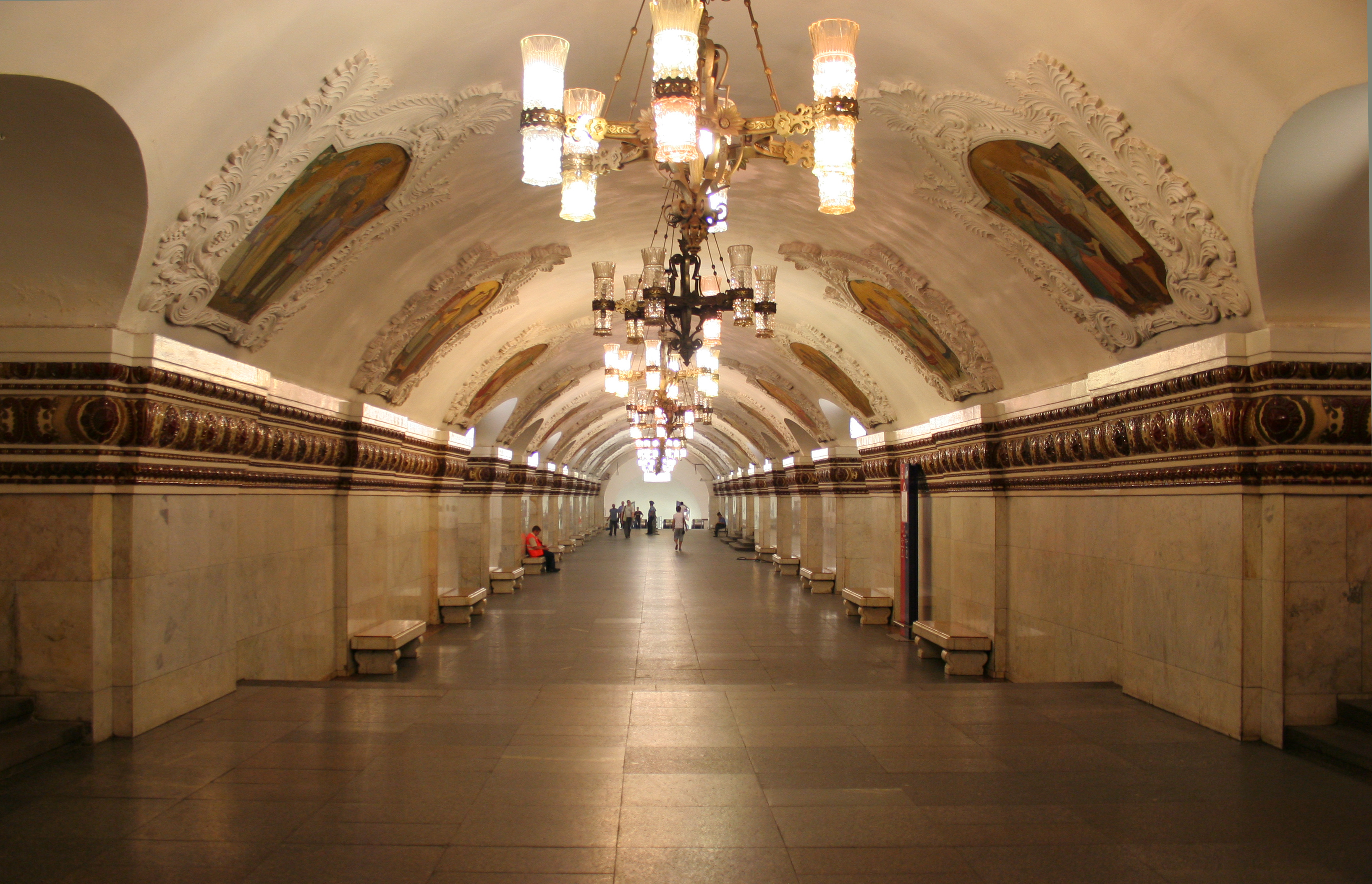 Kievskaya station (APL) of Moscow Metro.